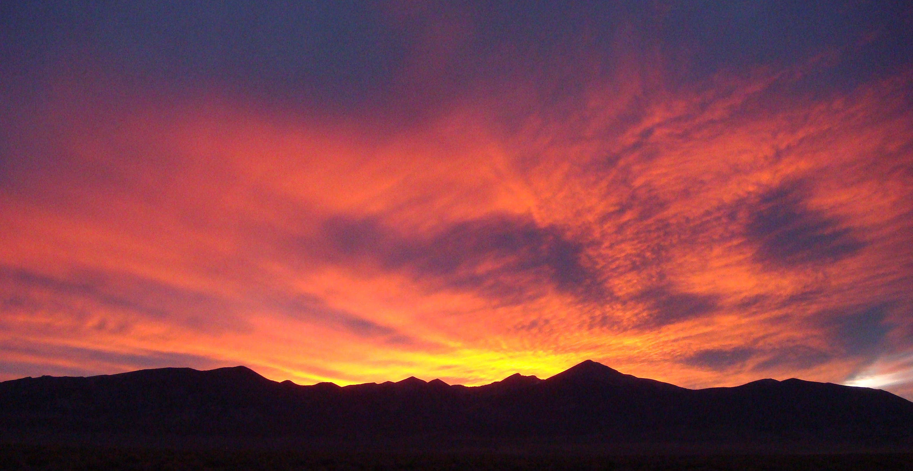 Sunset at Wheeler Peak, Nevada.